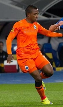 José Izquierdo